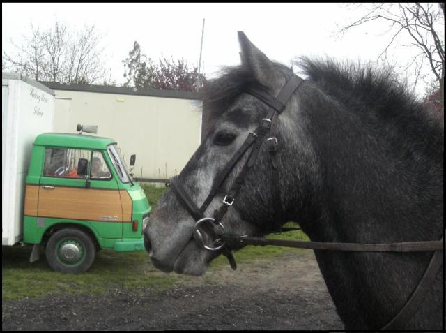 Pim Pam head, Poney Français de Selle